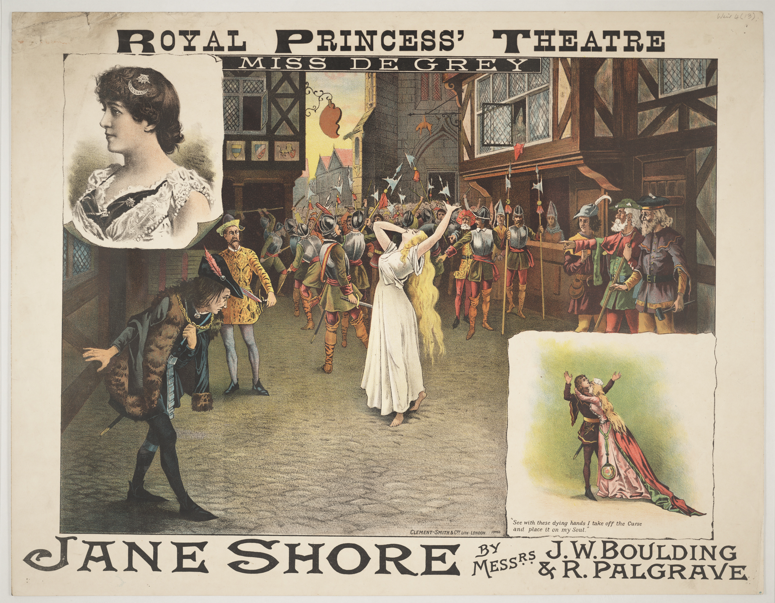 Royal Princess' Theatre [Edinburgh, 14th December 1885], Miss de Grey. 'Jane Shore' by Messrs J. W. Boulding & R. Palgrave. Caption: 'See with these dying hands I take off the Curse and place it on my Soul.'. Printed by Clement-Smith & Co[mpan]y, Lithographer, London.